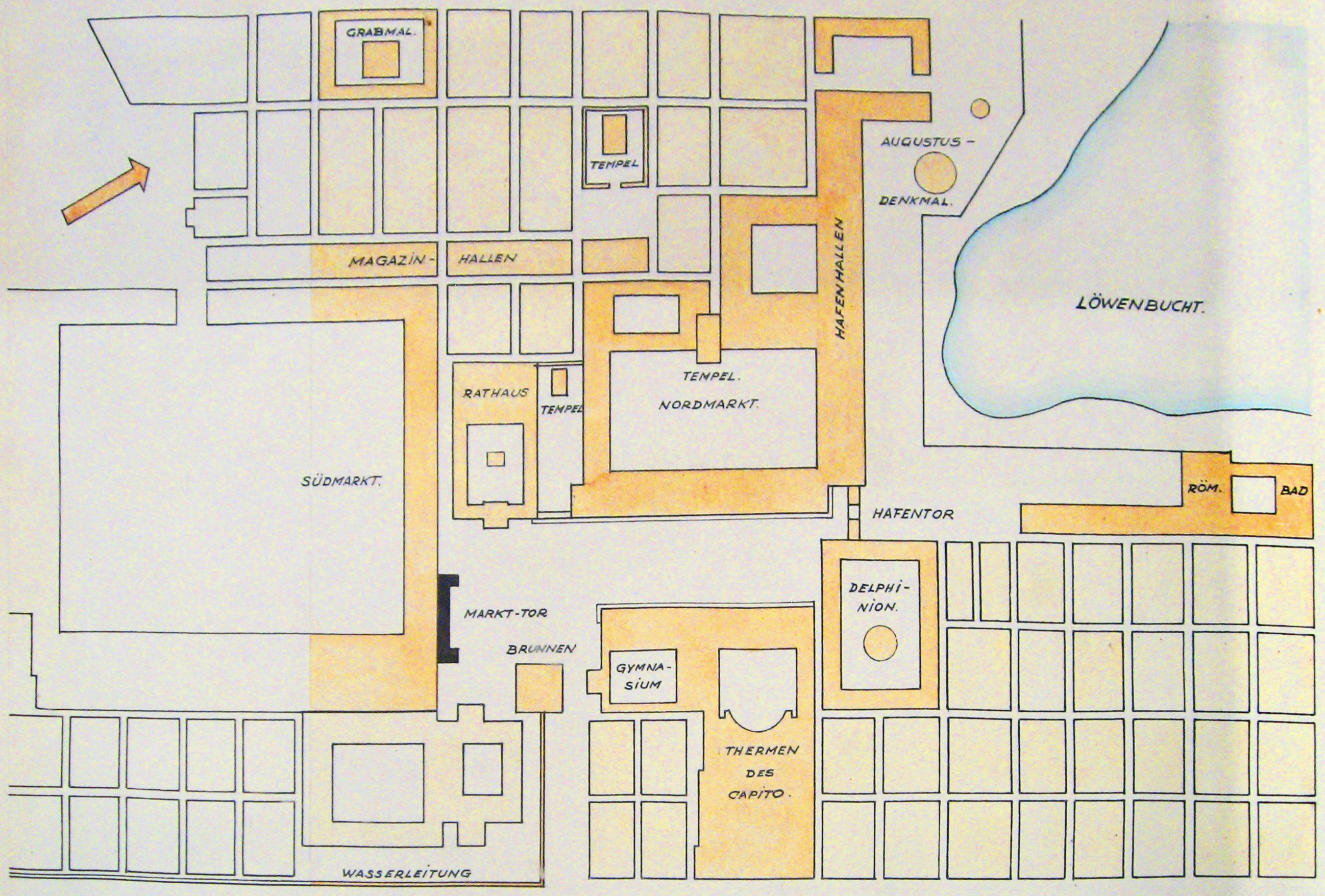 Plan of Milet, the markets and surroundings around 200 AD. Models were made in 1968 by H. Schleif and K. Stephanowitz. Scale is 1:300